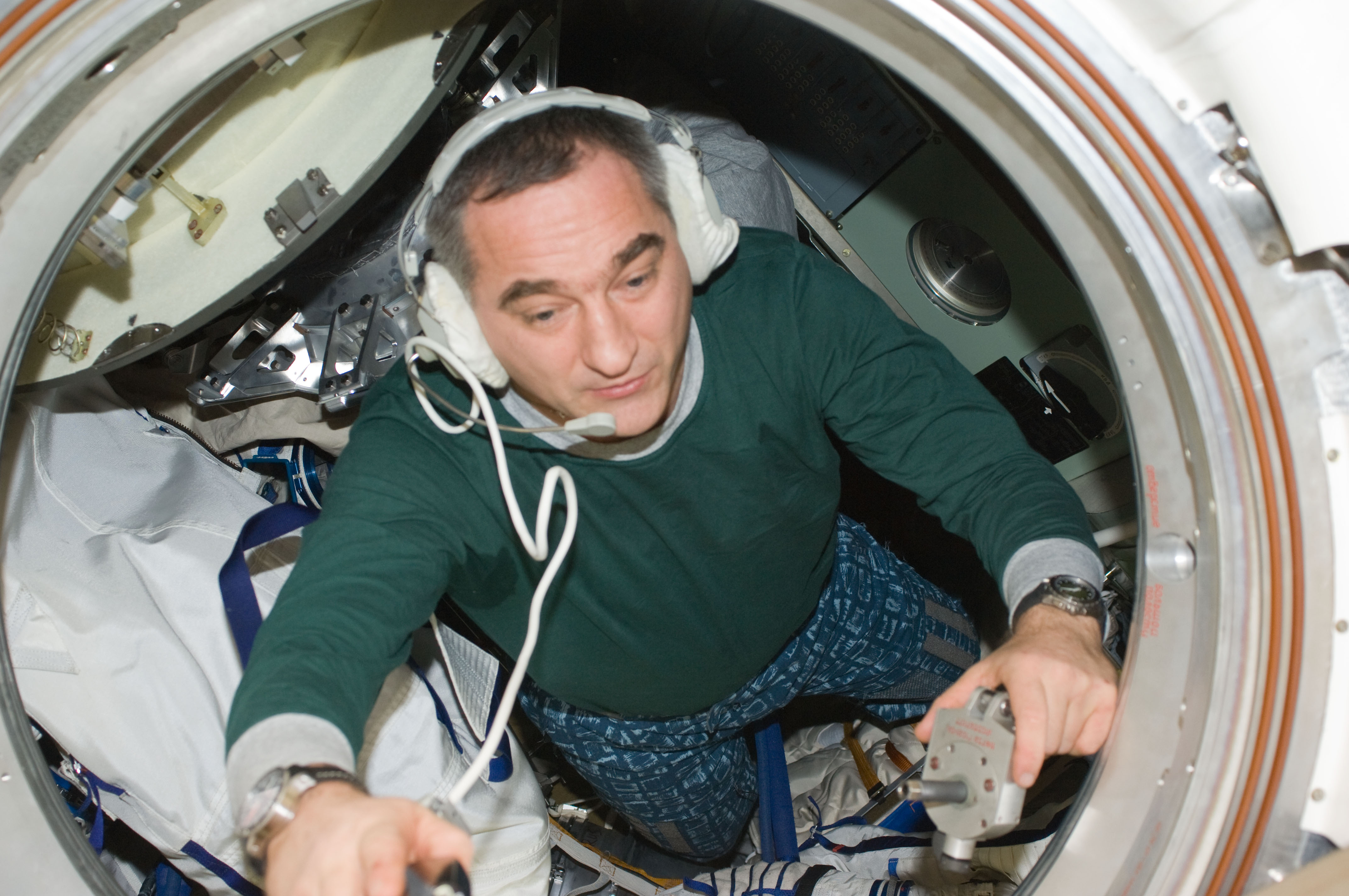 Russian cosmonaut Alexander Skvortsov, Expedition 24 commander, makes final preparations for his departure in the Soyuz TMA-18 docked to the Poisk Mini-Research Module 2 (MRM2) of the International Space Station. The Soyuz undocked at 10:02 p.m. (EDT) on Sept. 24, 2010, carrying Skvortsov, Russian cosmonaut Mikhail Kornienko and NASA astronaut Tracy Caldwell Dyson (both out of frame). Originally scheduled for Sept. 23, the Soyuz undocked a day later due to a Poisk-side hatch sensor problem, which prevented hooks on the Poisk side of the docking interface from opening.